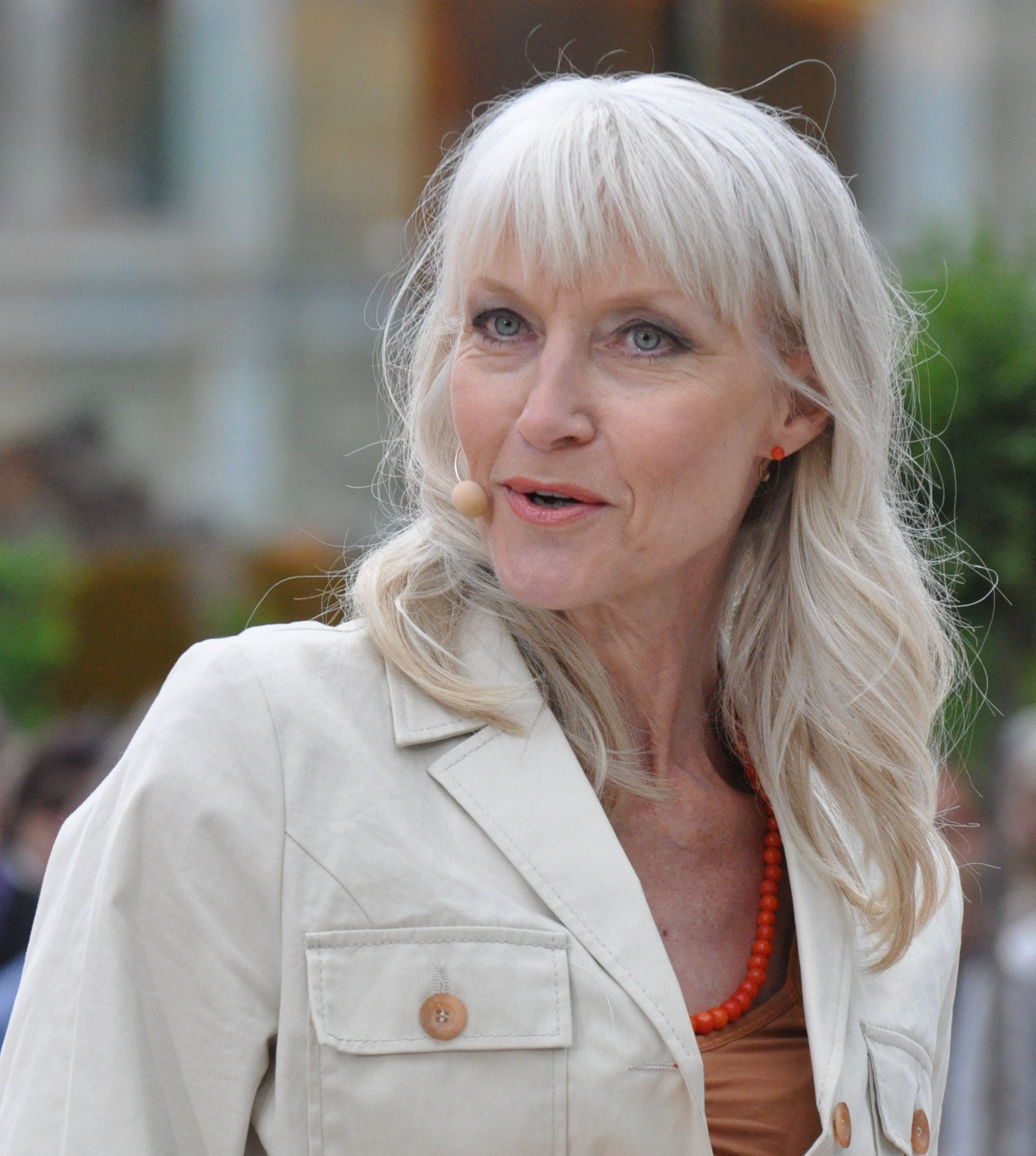 Finnish actress Jaana Järvinen during the taping of Runoraati at the Turku Main Library, 2011.